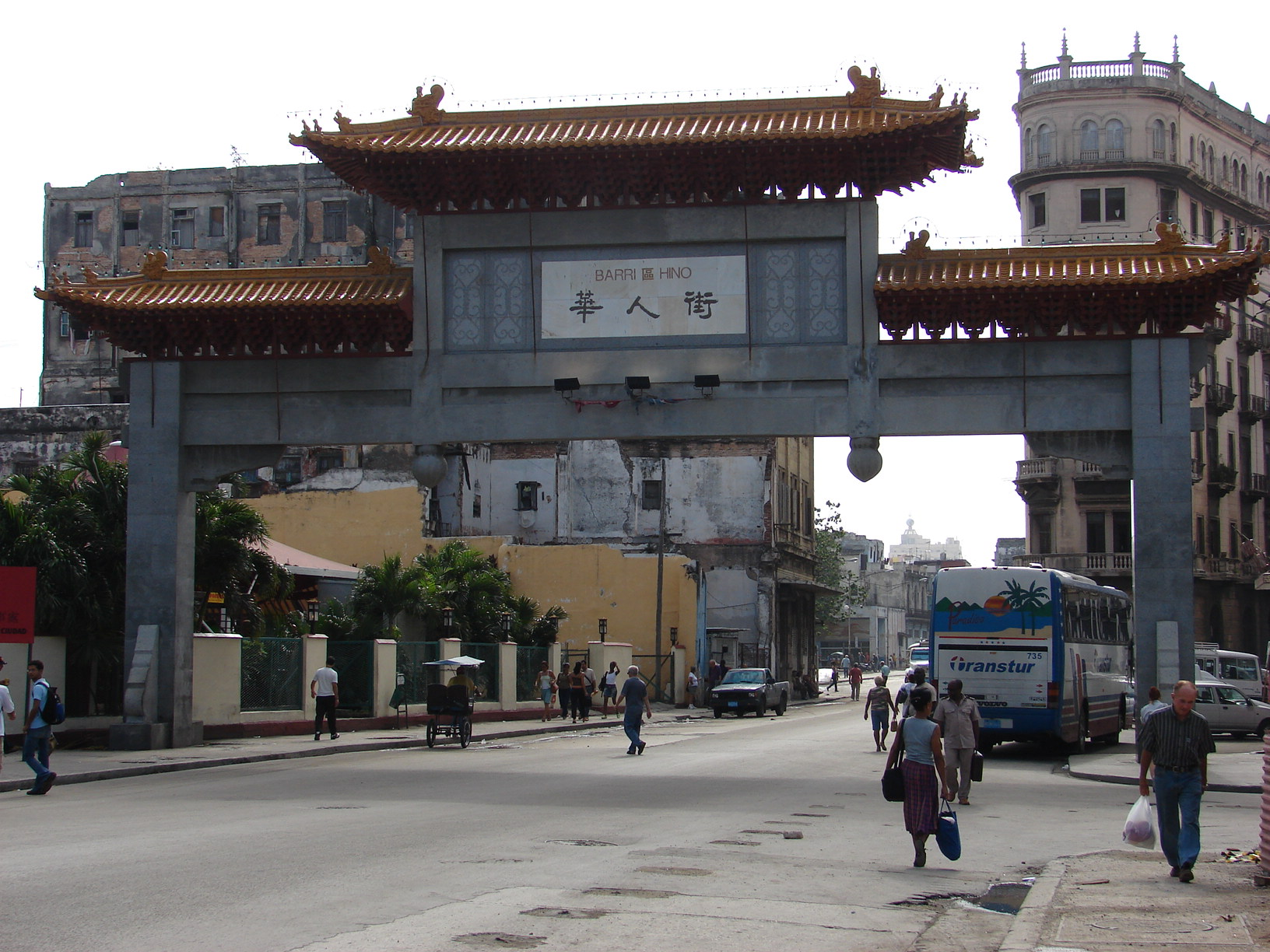 Chinatown's Main Gate in Havana.